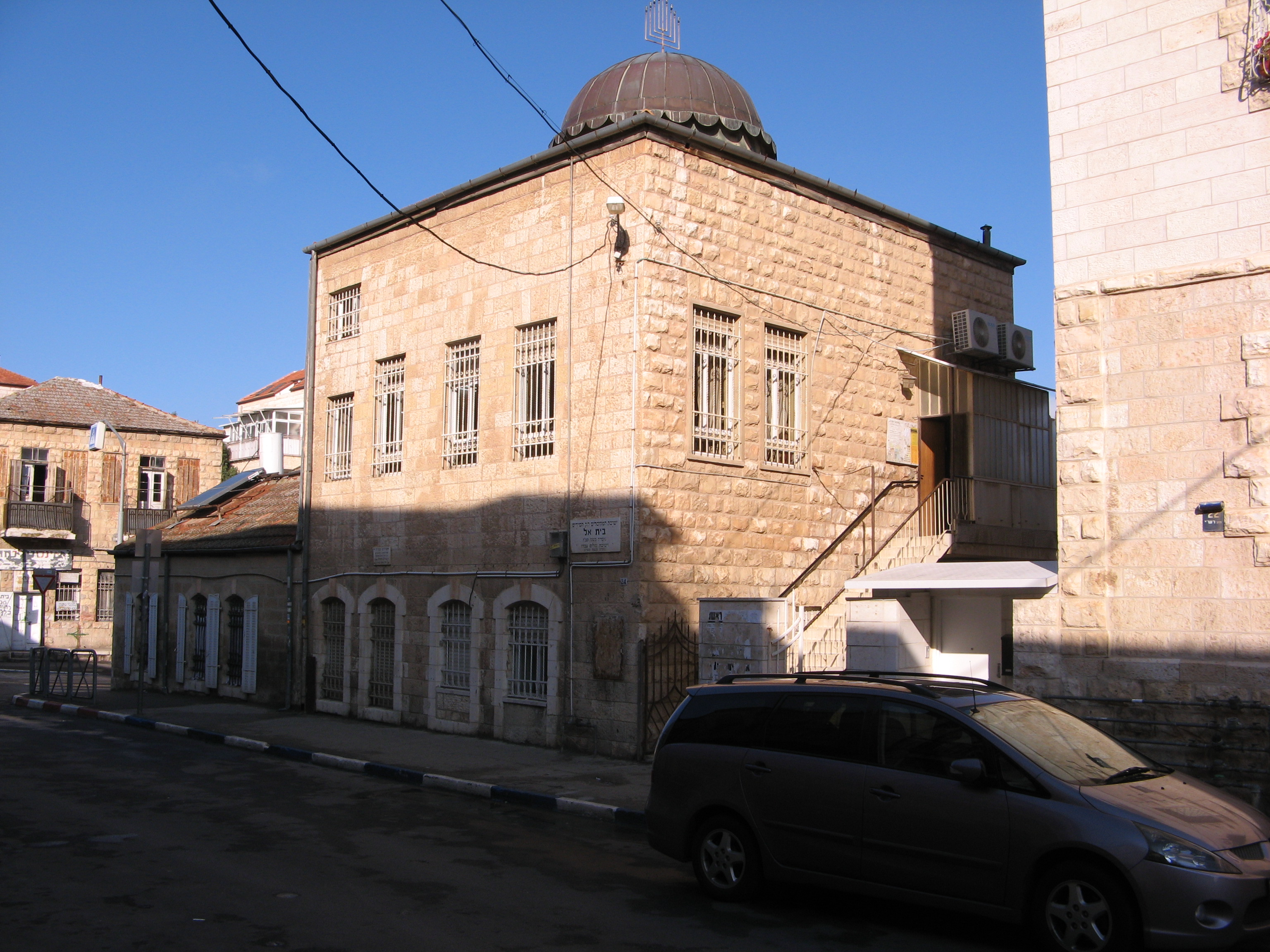 Yeshivat Beit el in north Jerusalem, Rashi St 24